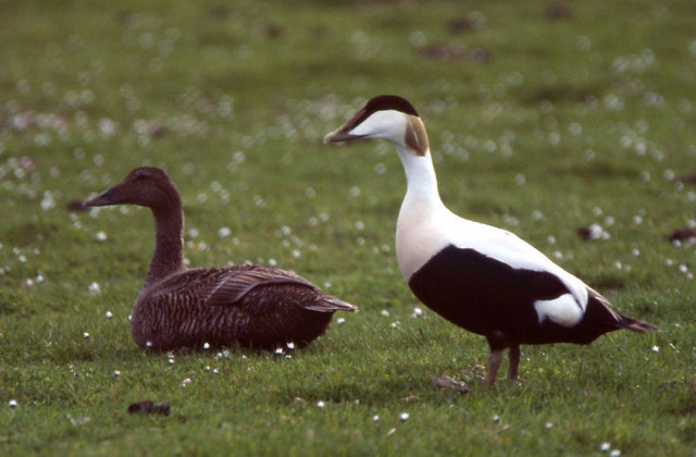 Eiders (Somateria mollissima), Lamba Ness. Eiders, known as Dunters in Shetland, are largely marine ducks, but may breed on moorland some distance from the sea. Rather quaintly, the male accompanies the female in walking to the nest-site, reviewing the route to the sea that will be taken by the ducklings when they hatch.